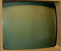 Phosphor burn-in ("screen burn") visible on a monochrome CRT computer monitor, even while the monitor is shut off. This is an artwork by the artist Steven Read. The phosphor burning action was purposeful.; PD release.